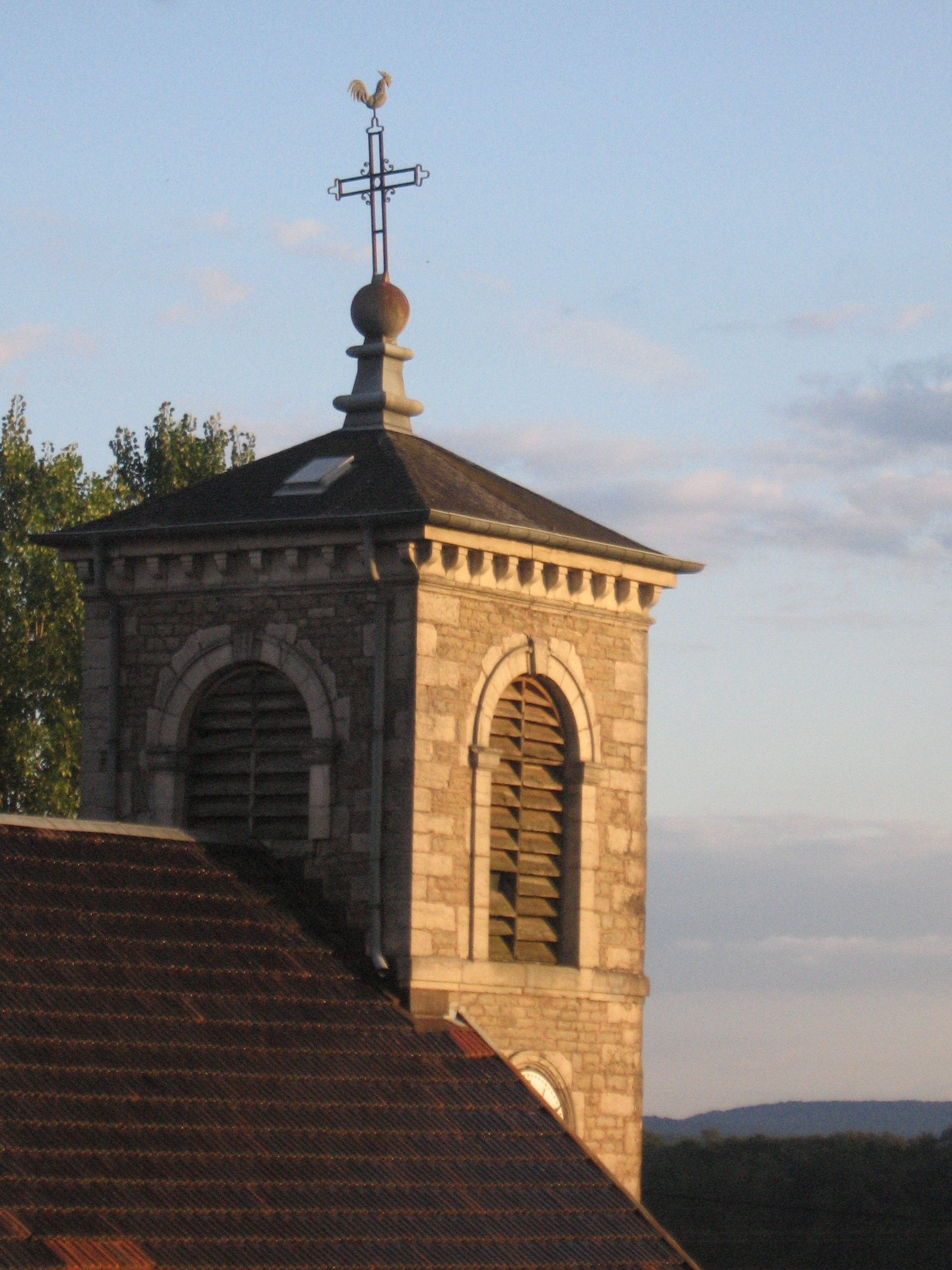 Thieffrans' steeple